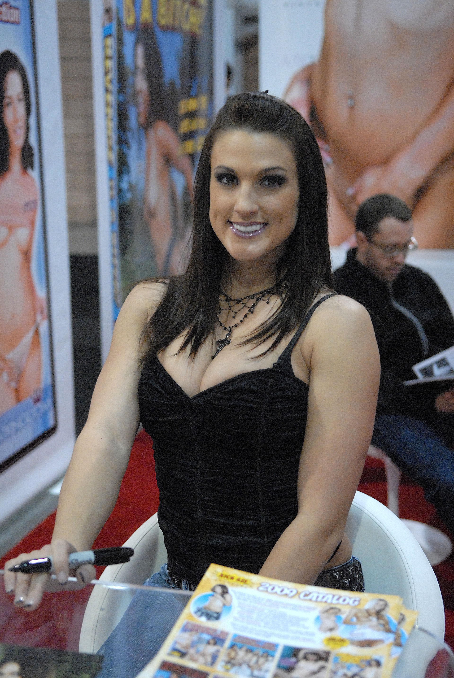 Misty Anderson at AVN Adult Entertainment Expo 2009